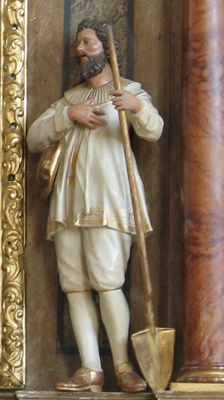 Saint Isidor the Laborer - baroque statue by the Vinazer School in St. Peter bei Laien